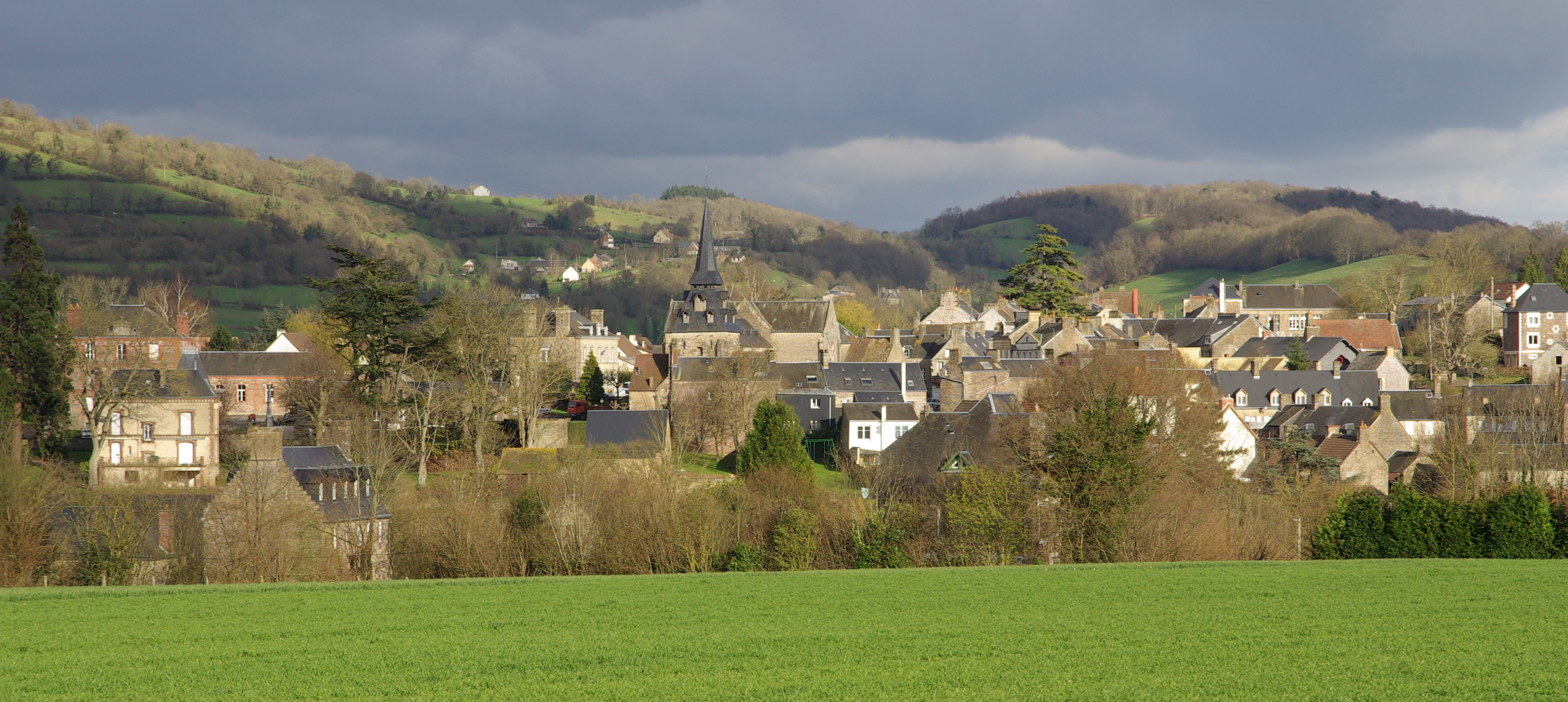 Part of view Clécy village